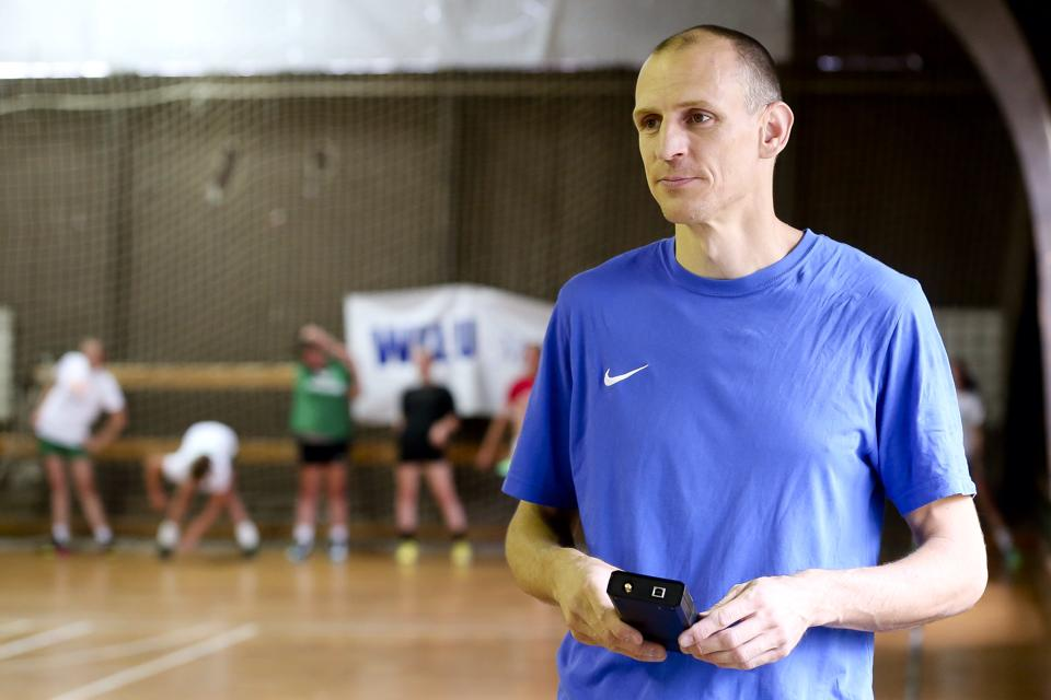 Photo of Levente Csillag during work at Népliget, Budapest, 2014.